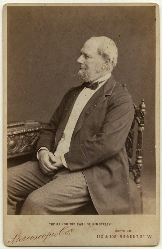 Photograph of John Wodehouse, 1st Earl of Kimberley